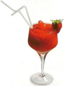 Zumo